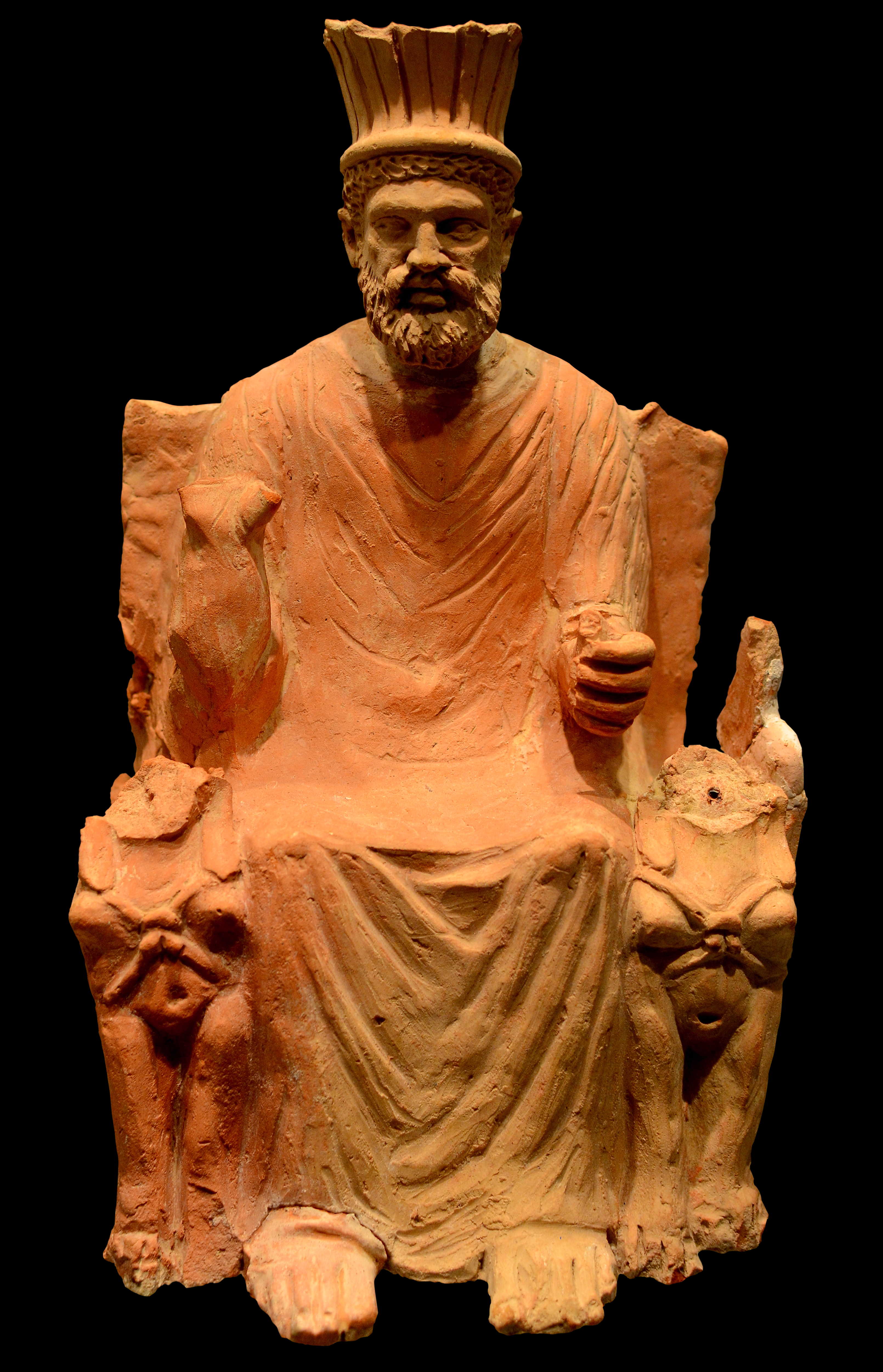 Terra cotta statue of Baal-Hammon seated on his throne. He is flanked by sphinxes and wears a crown.